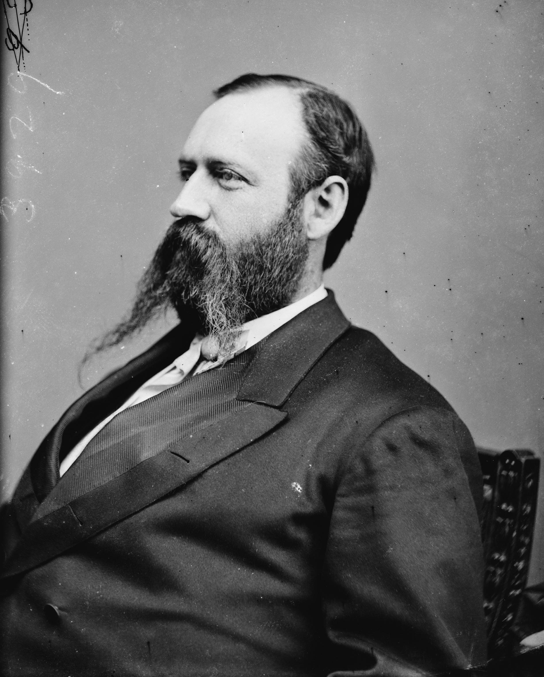 Rufus Bullock. Library of Congress description: "Bullock, Hon. Rufus B., Gov. of GA."